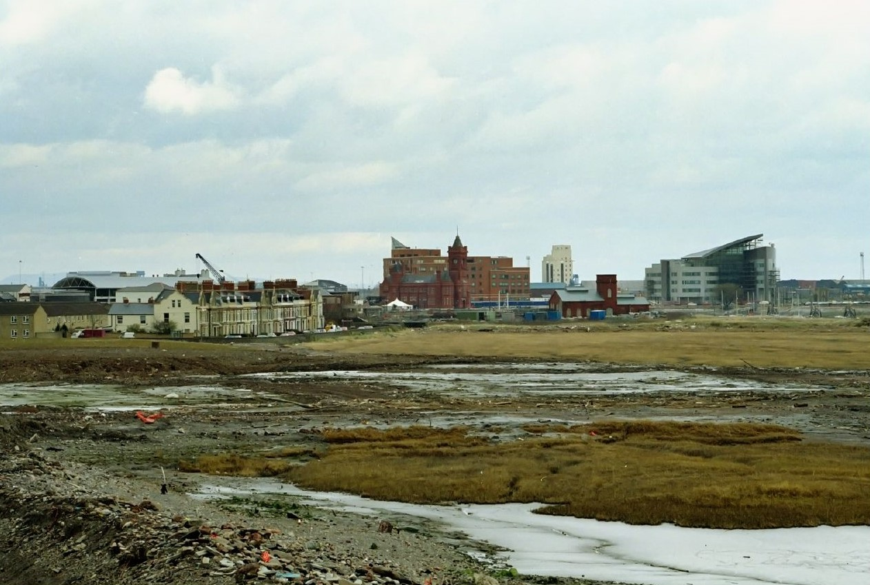 Cardiff Bay prior to the building of the Cardiff Bay Barrage, Cardiff, Wales